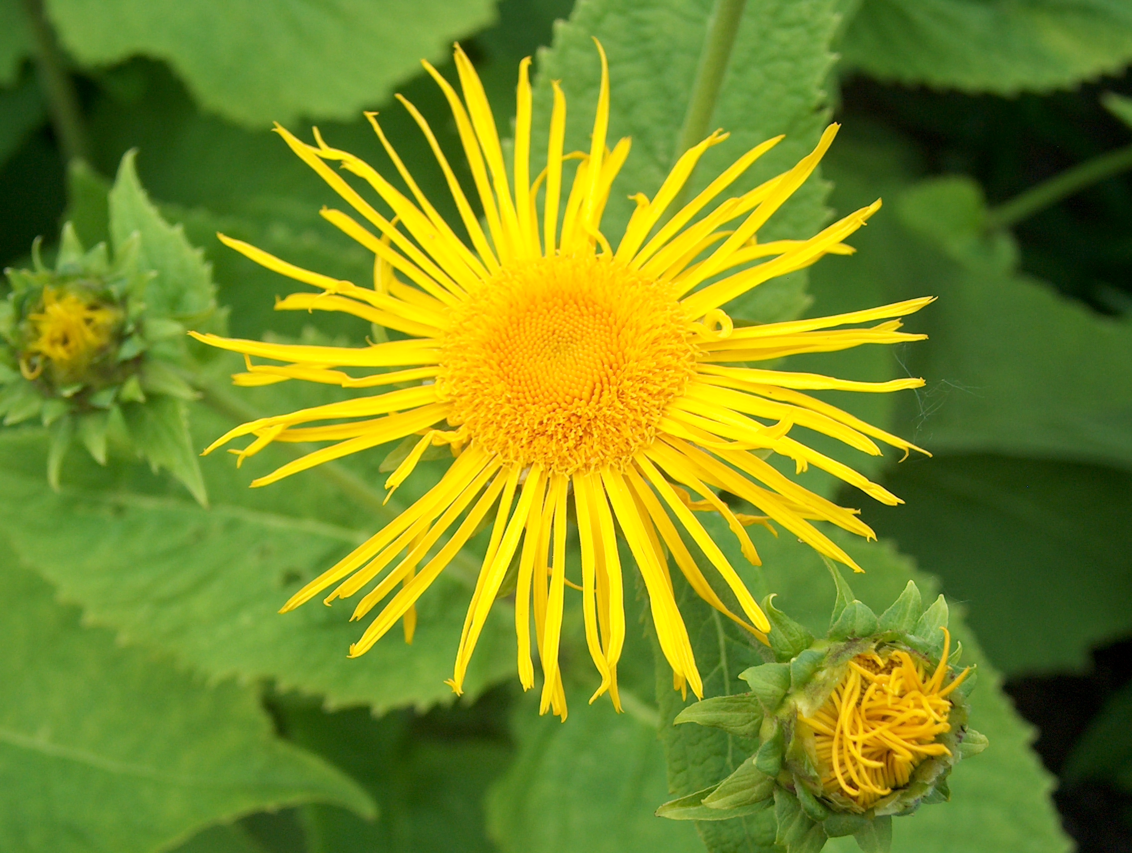 Telekia, Heartleaf Oxeye (Telekia speciosa) in The University of Helsinki Botanical Garden in Kaisaniemi